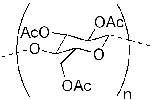 chemical structure of cellulose triacetate